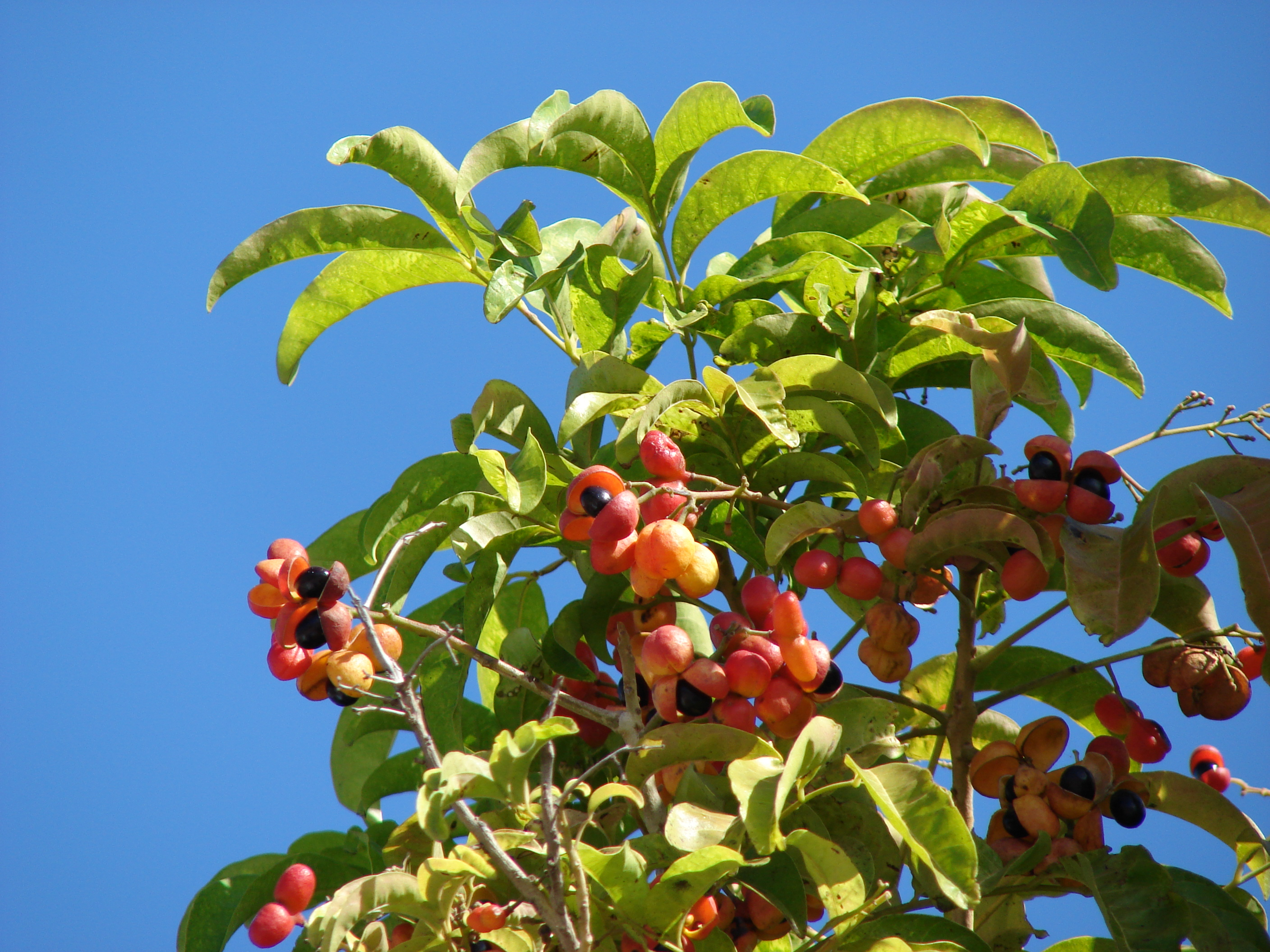 Harpullia pendula (fruit and leaves). Location: Maui, Kihei